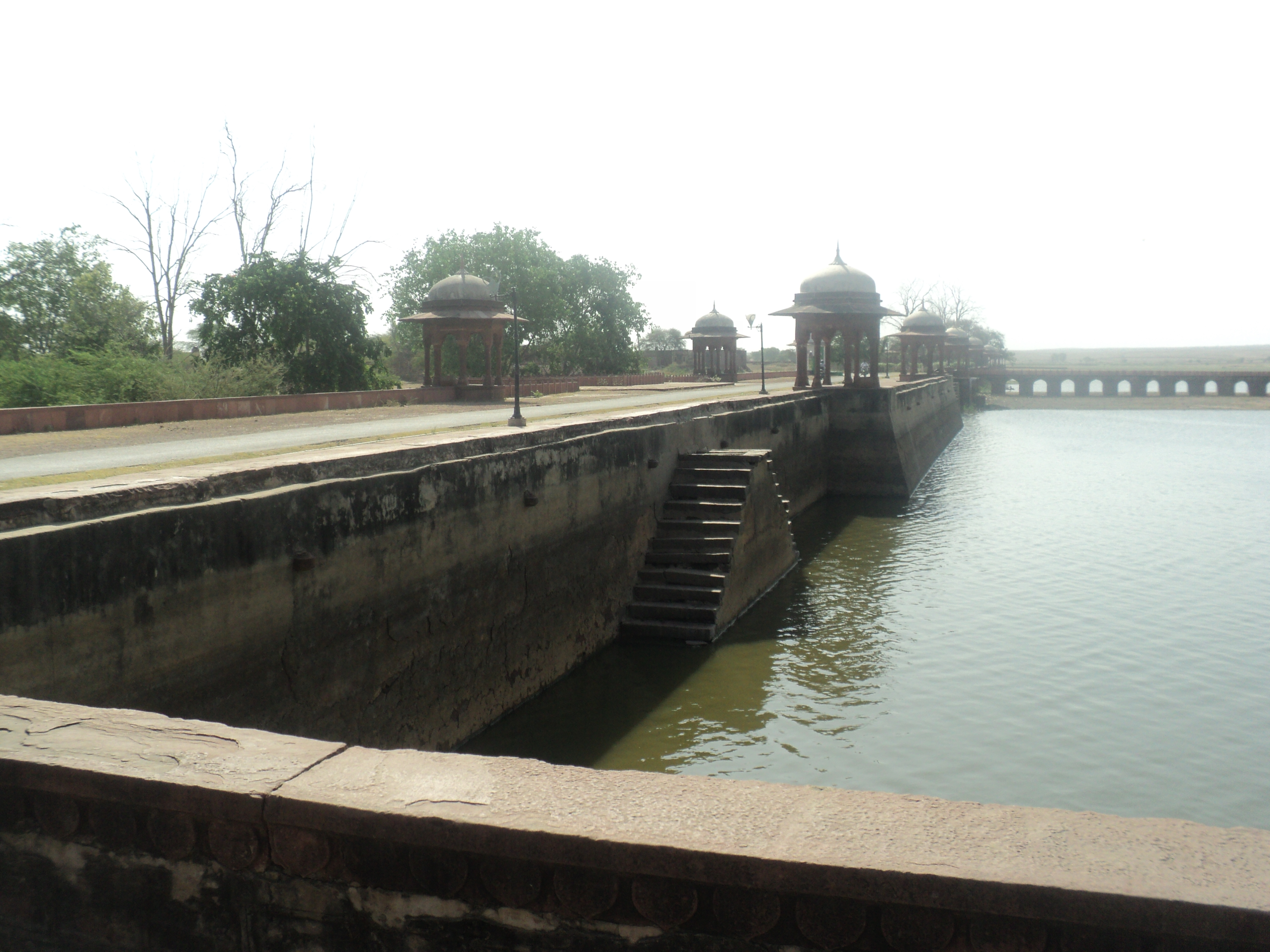 Talab e shahi lake,steps, bari, dholpur, rajasthan, india